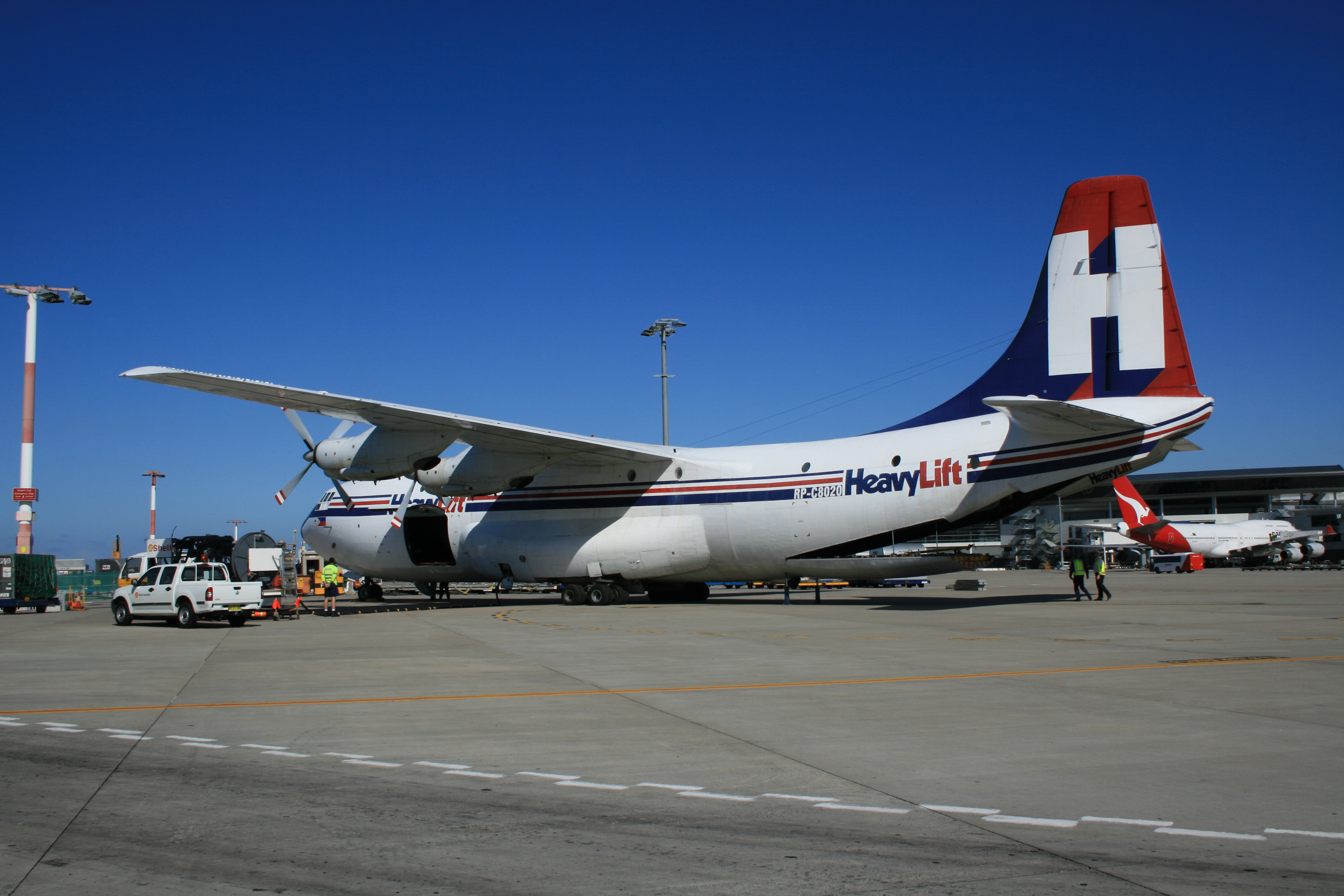 HeavyLift's Short Belfast parked at Sydney International Airport being refuelled while waiting for its next load. Digital photo of RP-C8020 taken by YSSYguy on August 12 2007 & uploaded for use in article about the Short Belfast.